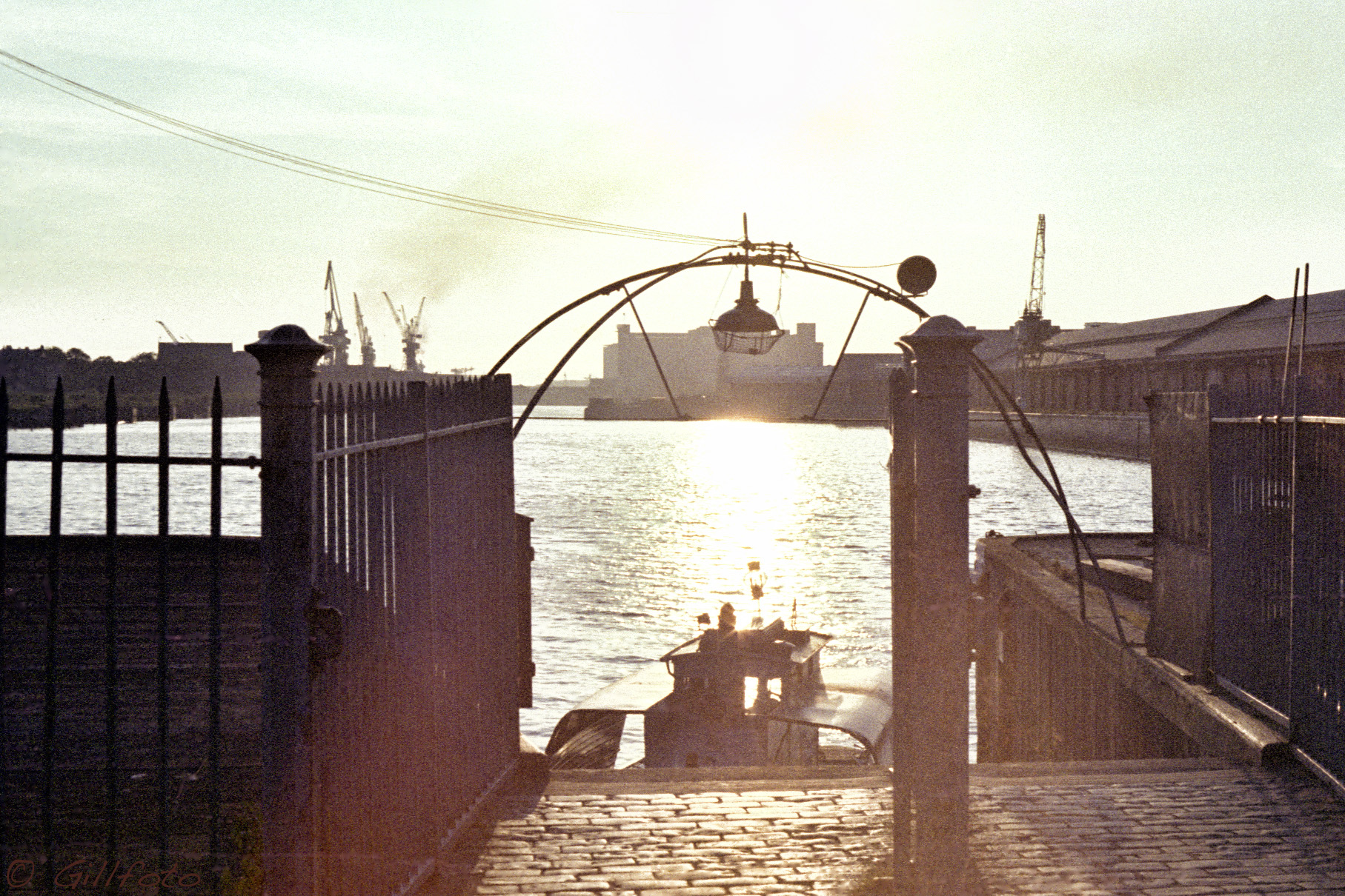 Kelvinhaugh ferry on River Clyde (35mm from 1975)